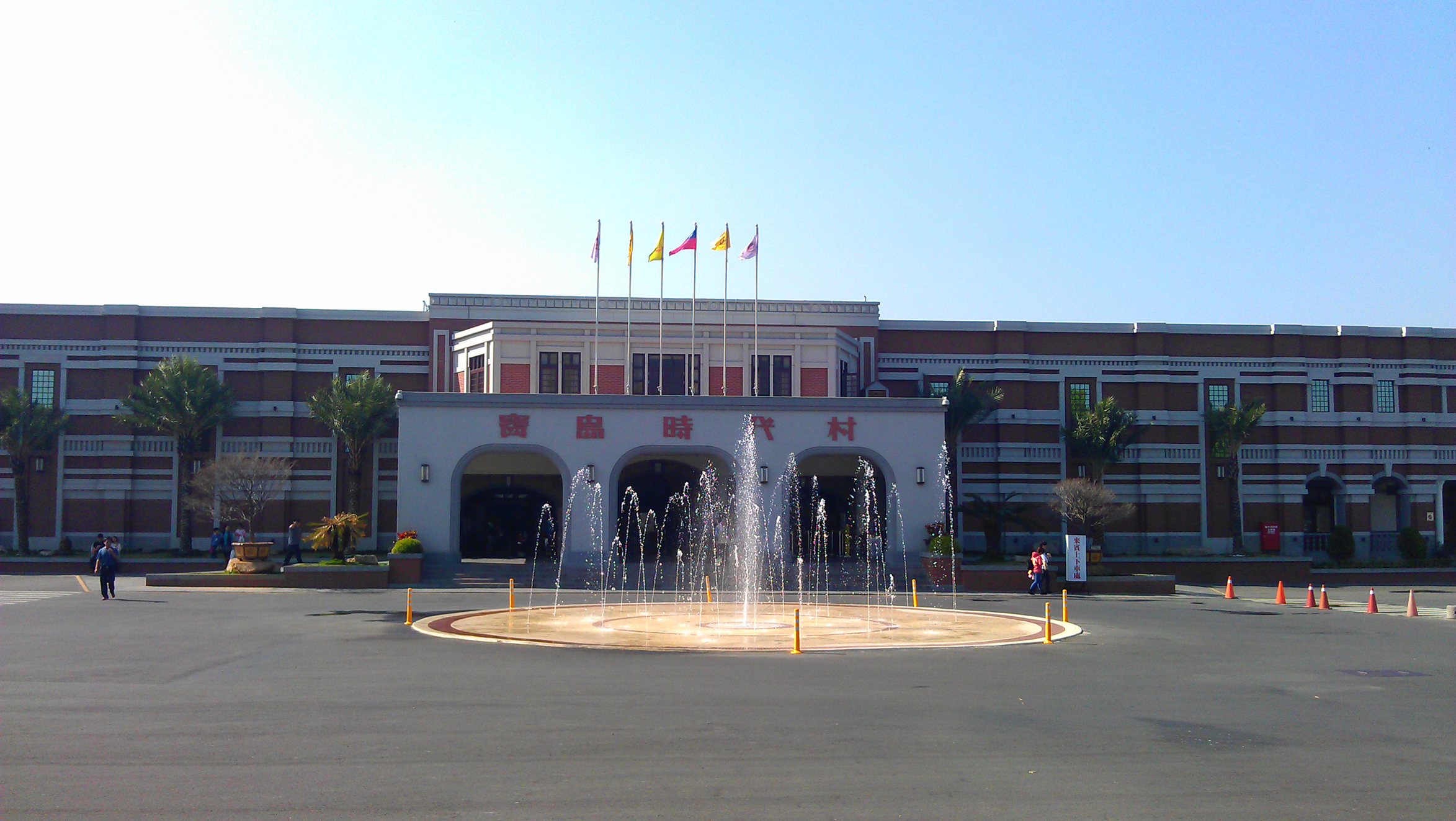 Taiwan Times Village中文（台灣）: 寶島時代村